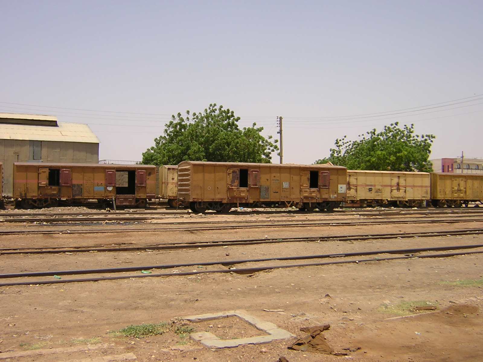 Railway station in Bahri, Khartoum, Sudan.